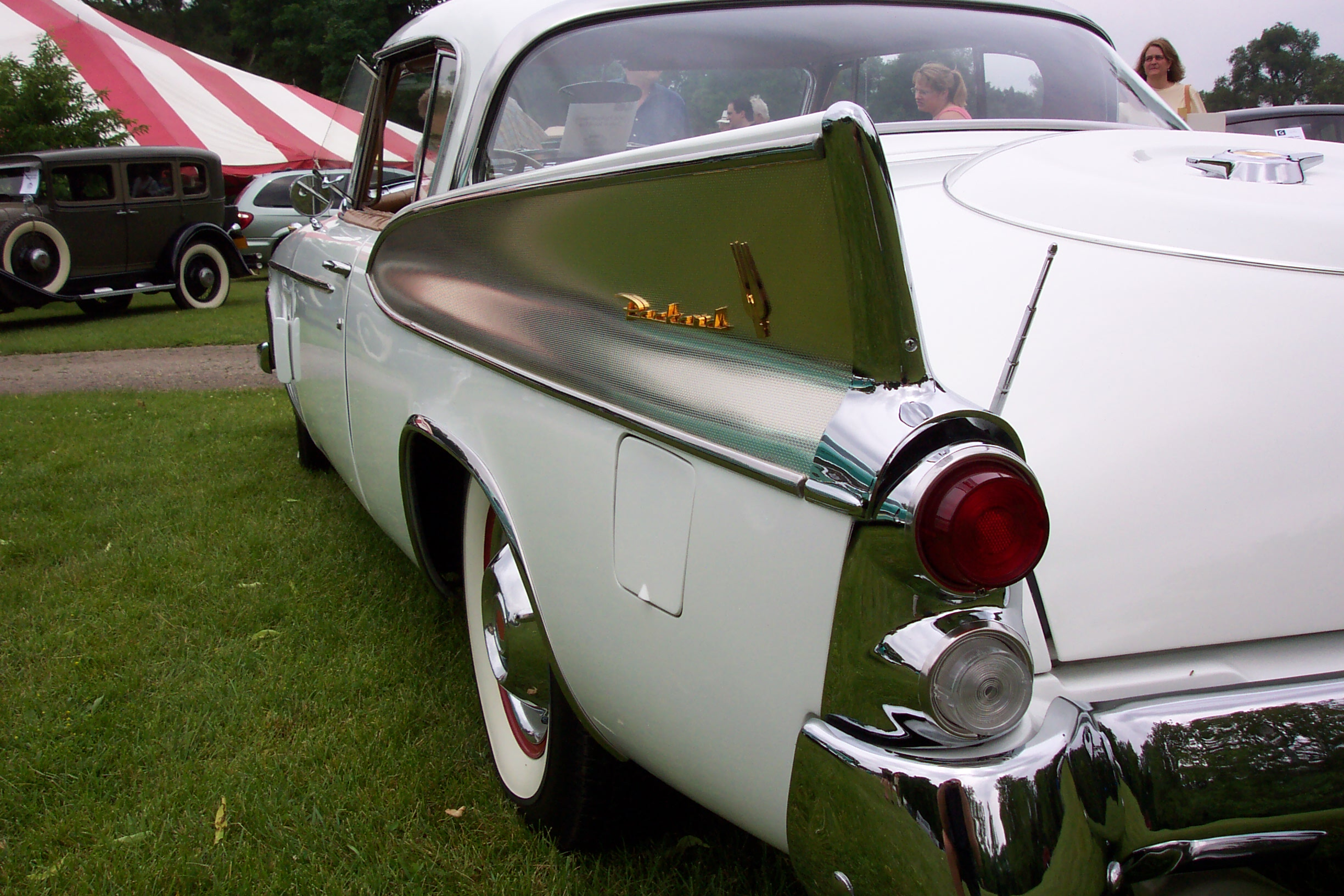 Orphan Car Show, Ypsilanti, Michigan, June 2007 Over 200 more pictures in my STUDEBAKER(set) at the right